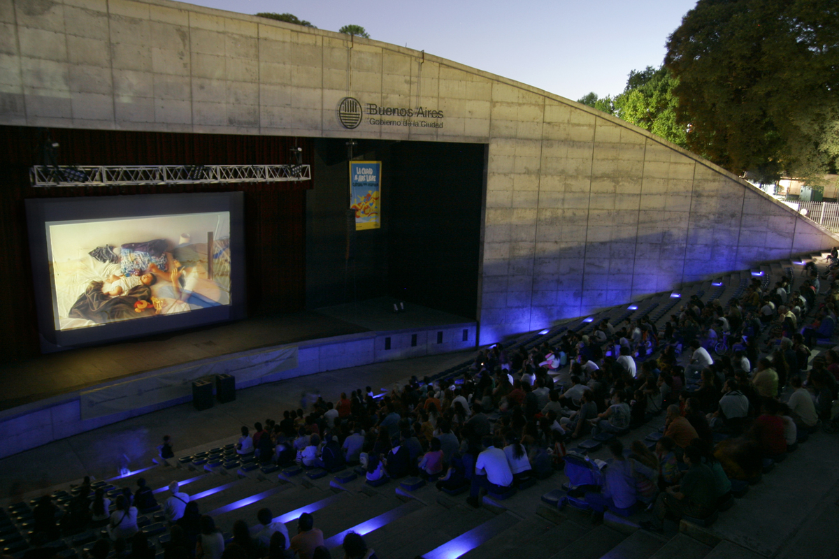 Spectators enjoy the BAFICITO, the children's edition of the BAFICI independent film festival, at the new Parque Centenario Amphitheater. (Photo: Estrella Herrera)